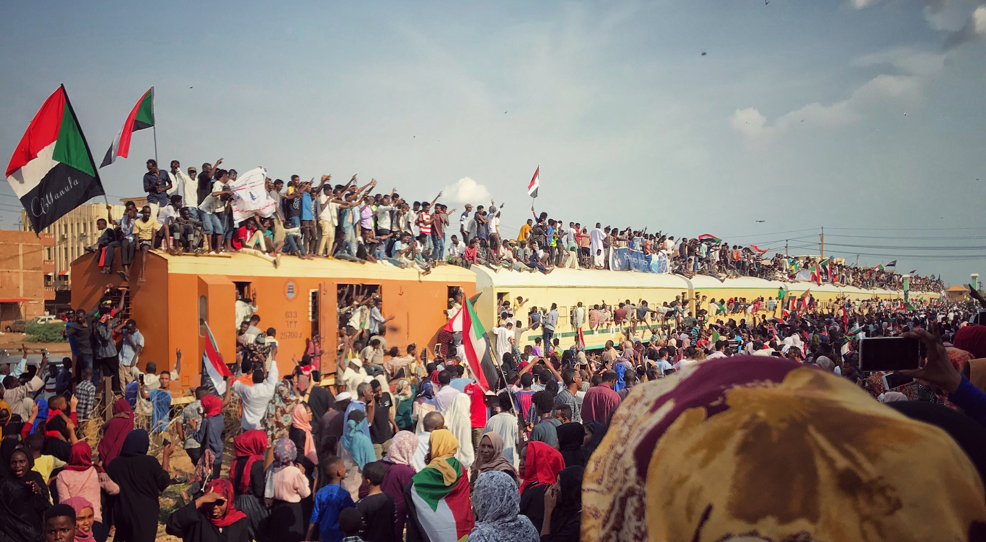 {"effects_tried":0,"photos_added":0,"origin":"gallery","total_effects_actions":0,"remix_data": ,"tools_used":{"tilt_shift":0,"resize":0,"adjust":0,"curves":0,"motion":0,"perspective":0,"clone":0,"crop":0,"enhance":0,"selection":0,"free_crop":0,"flip_rotate":0,"shape_crop":0,"stretch":0},"total_draw_actions":0,"total_editor_actions":{"border":0,"frame":0,"mask":0,"lensflare":0,"clipart":0,"text":0,"square_fit":0,"shape_mask":0,"callout":0},"source_sid":"4BCADABD-7128-4BE1-85CB-8871248B5A8F_1582995340981","total_editor_time":57,"total_draw_time":0,"effects_applied":0,"uid":"4BCADABD-7128-4BE1-85CB-8871248B5A8F_1582995340939","total_effects_time":0,"brushes_used":0,"height":1804,"layers_used":0,"width":3280,"subsource":"done_button"} This is an image with the theme "Africa on the Move or Transport" from: Sudan